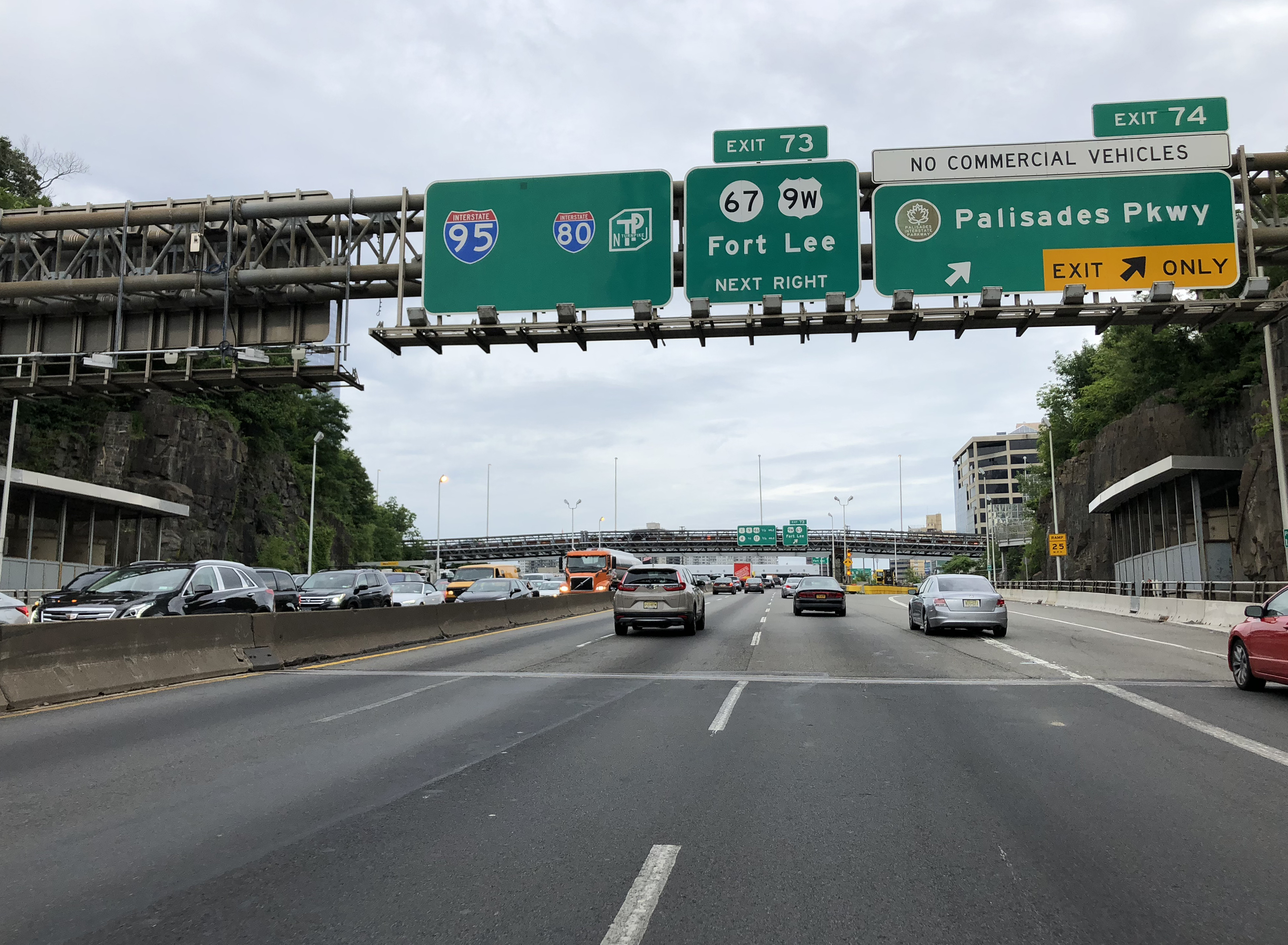 View south along Interstate 95, U.S. Route 1, U.S. Route 9 and west along U.S. Route 46 (Bergen-Passaic Expressway) at Exit 74 (Palisades Parkway) in Fort Lee, Bergen County, New Jersey